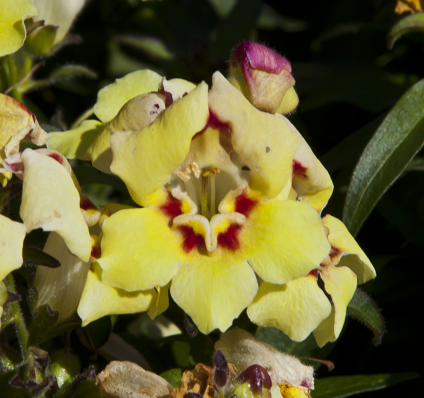 Common Snapdragon (Antirrhinum majus), Tallinn Botanic Garden, Estonia